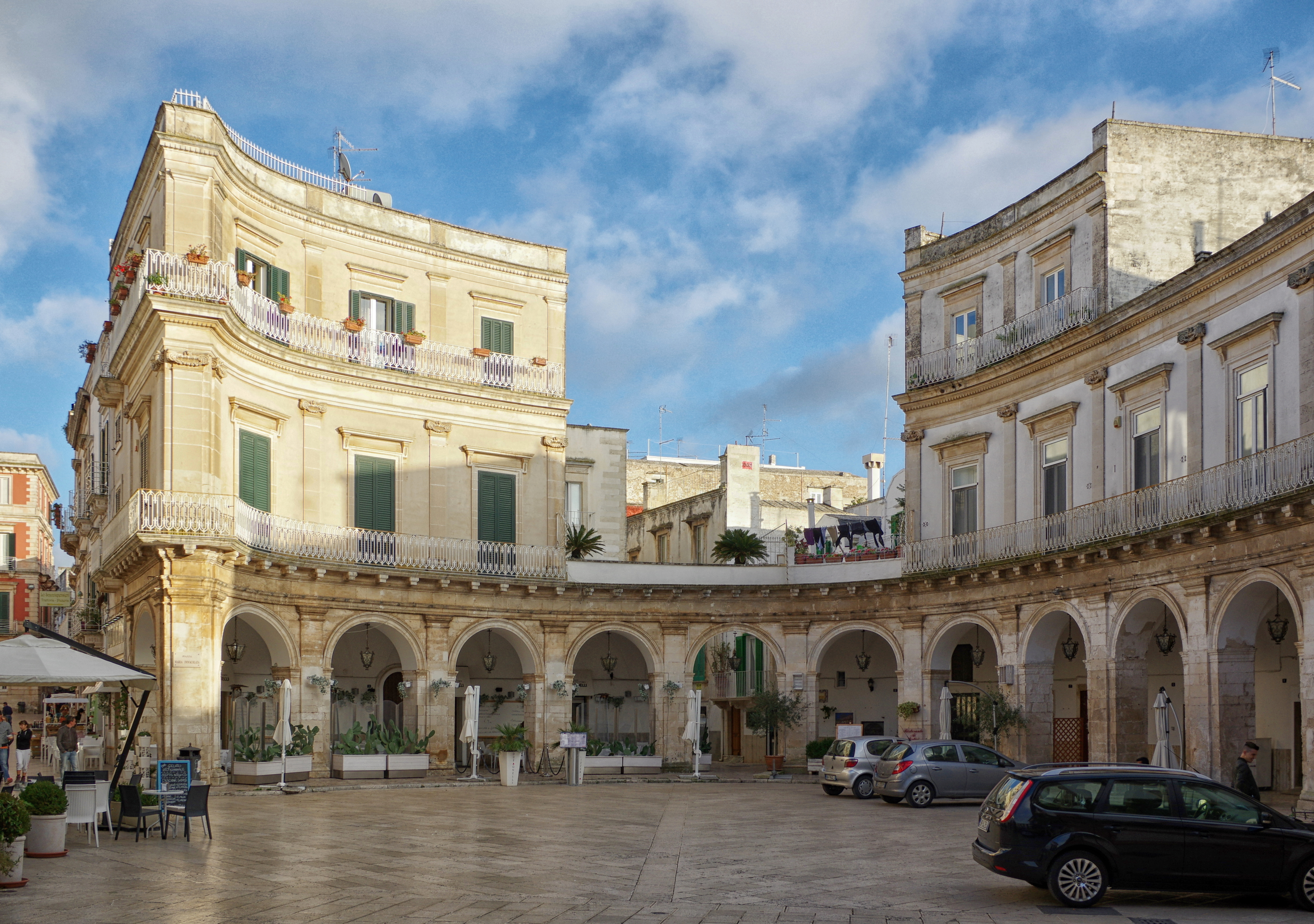 Italy, Martina Franca, Piazza Maria Immaculata